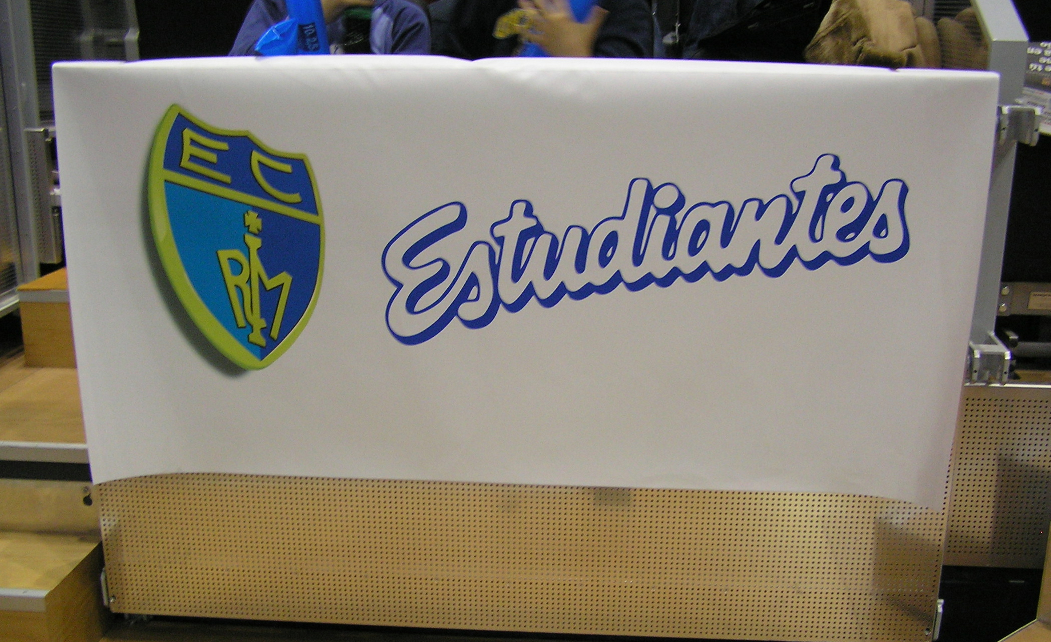 Classic logo of the basketball club Estudiantes (Madrid, Spain) From the Madrid Arena. Match between Estudiantes and Pamesa Valencia (BTW, 85-76) Author: Mr. Tickle Date: 19th November, 2005